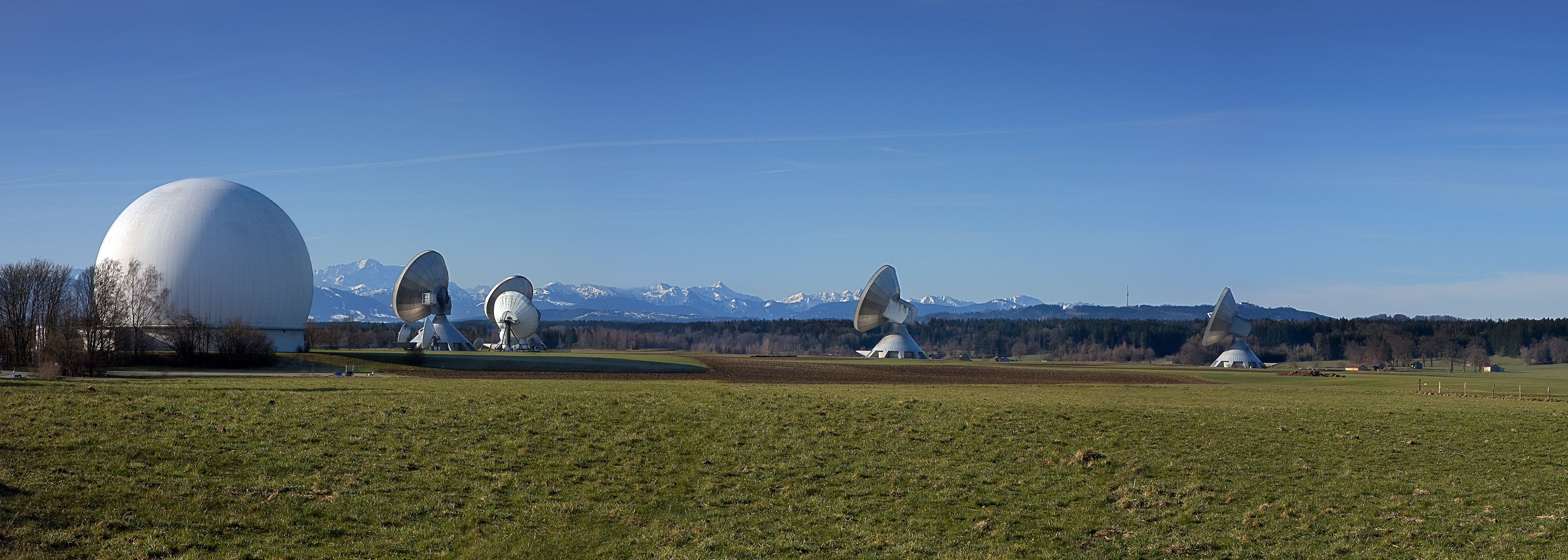 The biggest facility for satellite communication in Raisting, Bavaria, Germany.